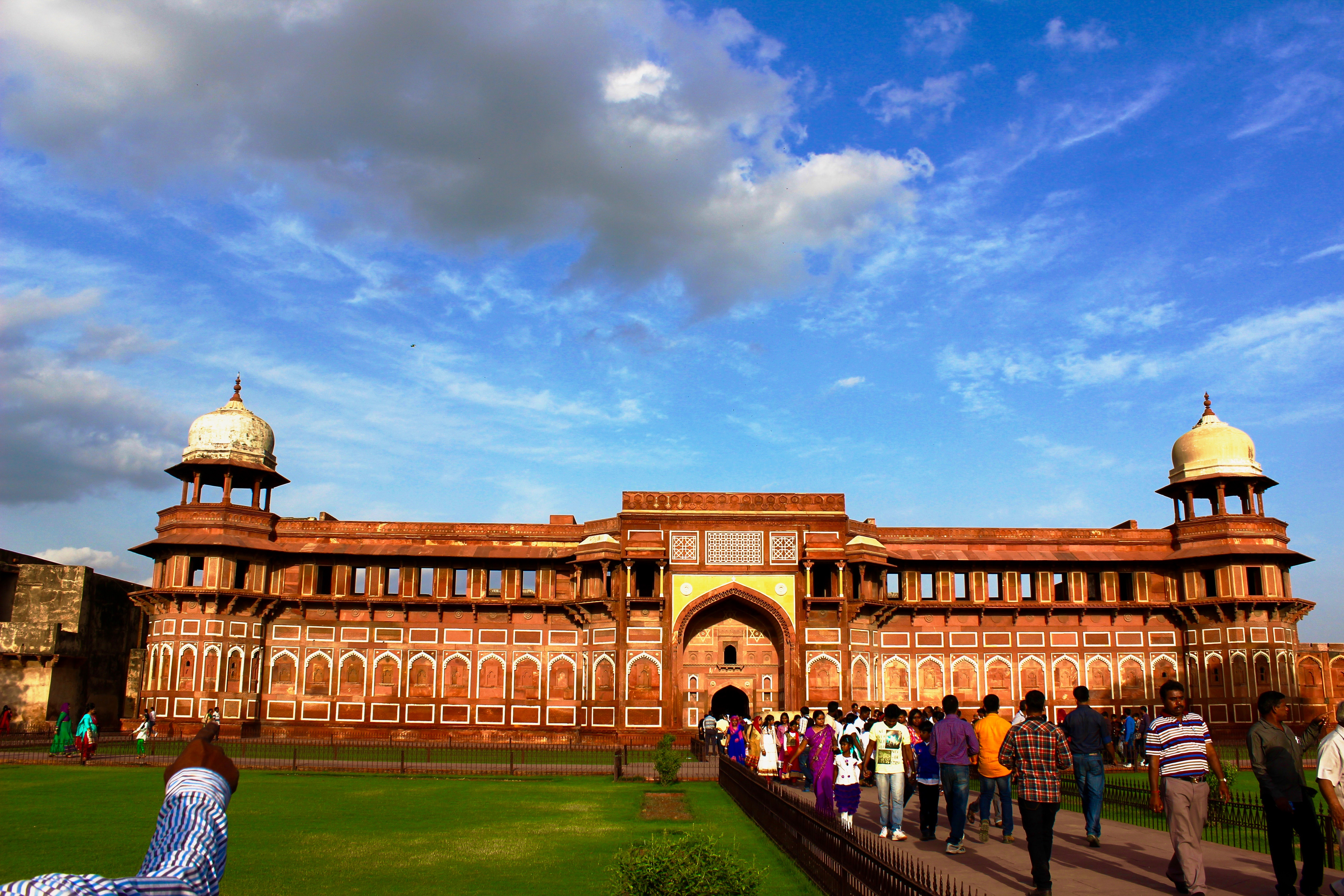 Agra Fort: Akbari Mahal